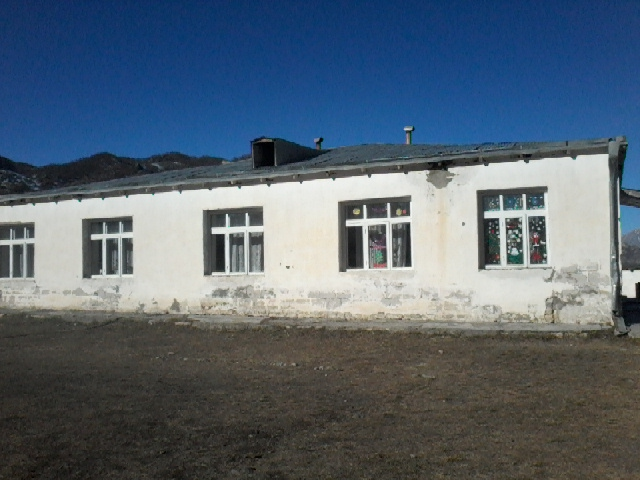 School of Havsatagh village, Shahumyan region, Artsakh